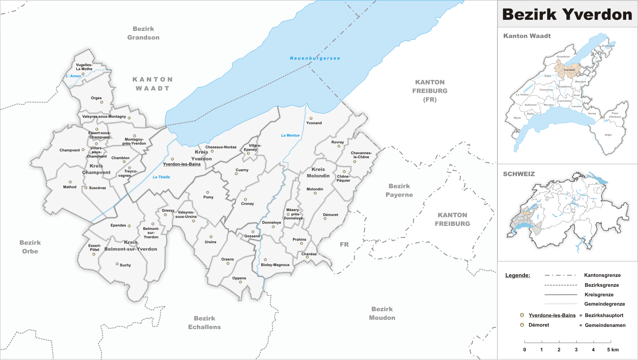 Municipalities in the district of Yverdon